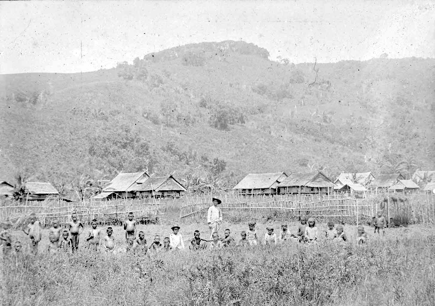 School students in Kasiguncu